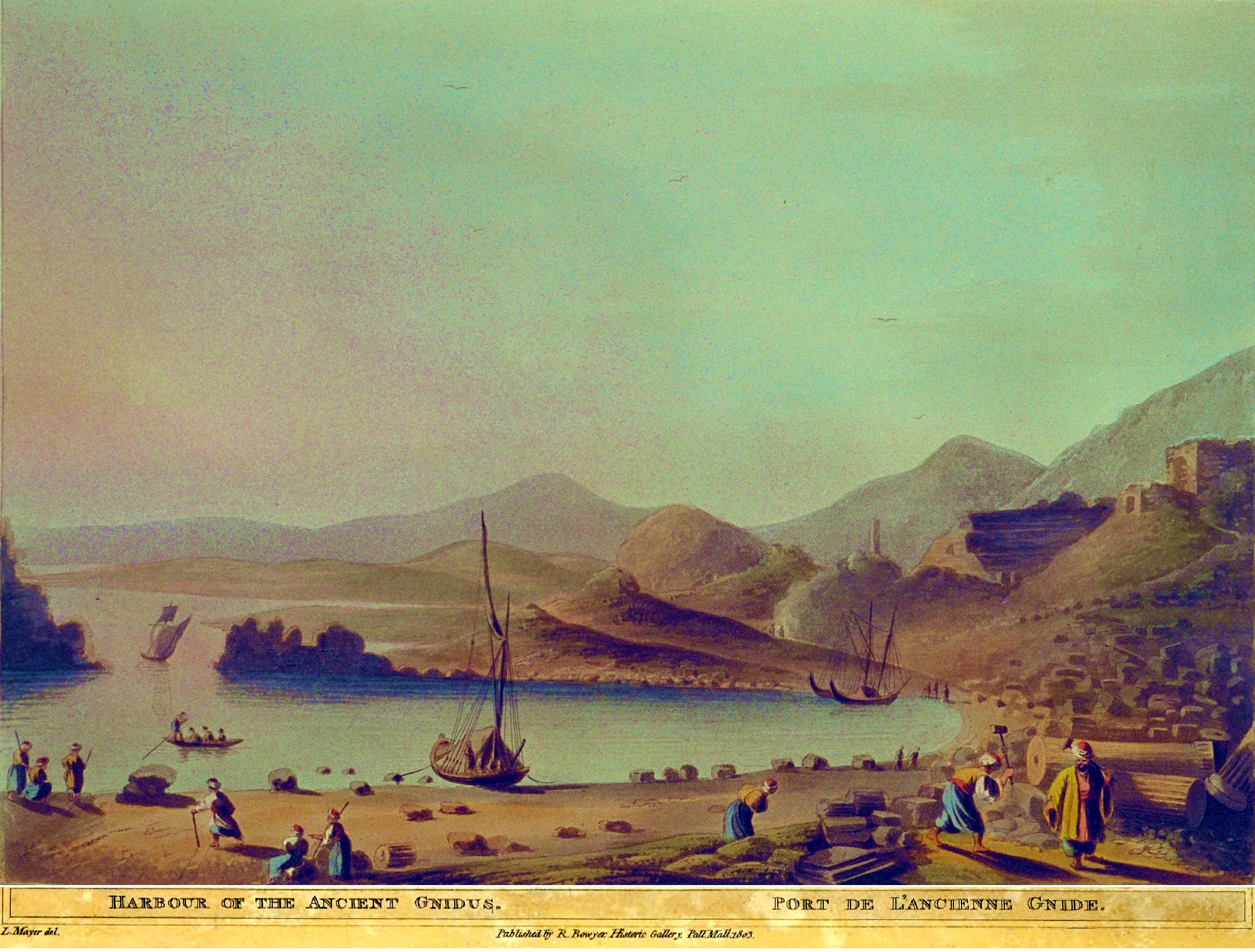 Views in the Ottoman Empire